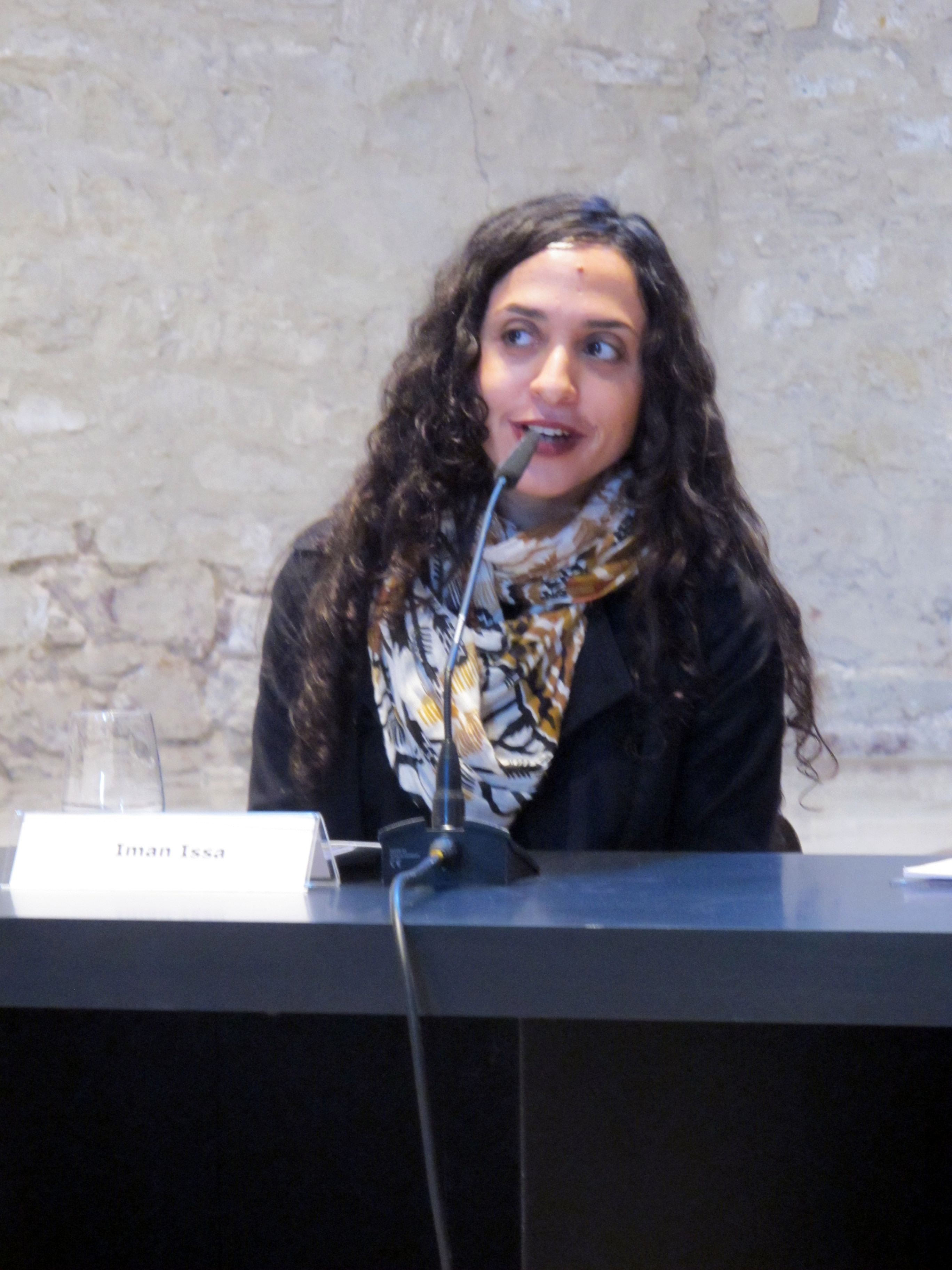 Iman Issa, egiptian artist, receiving I Premi Fundació Han Nefkens MACBA award